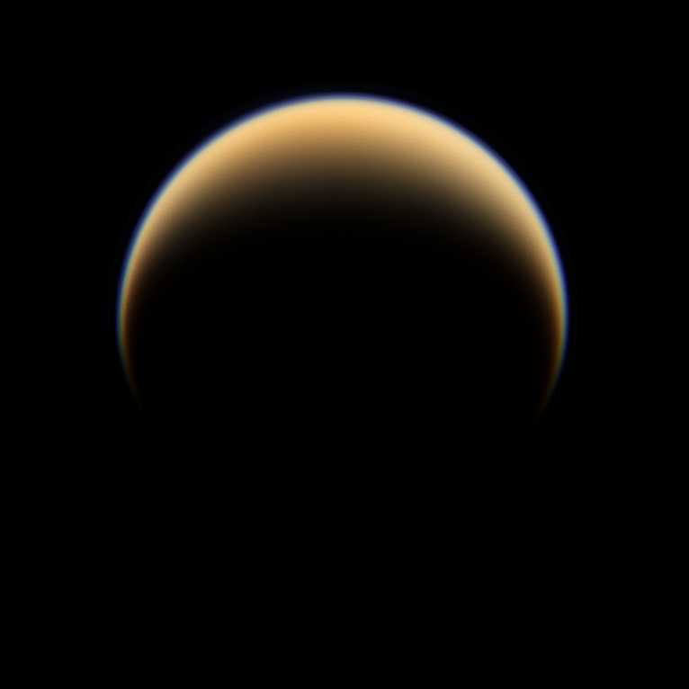 Cassini looks down on the north pole of Titan, showing night and day in the northern hemisphere of Saturn's largest moon. This view is centred on terrain at 49 degrees north latitude, 243 degrees west longitude. The north pole of Titan is rotated about 23 degrees to the left and it lies on the terminator above and to the left of the centre of the image. Images taken using red, green and blue spectral filters were combined to create this natural colour view of Titan. The images were obtained with the Cassini spacecraft wide-angle camera at a distance of approximately 194,000 kilometres from Titan. Image scale is 11 kilometres per pixel.